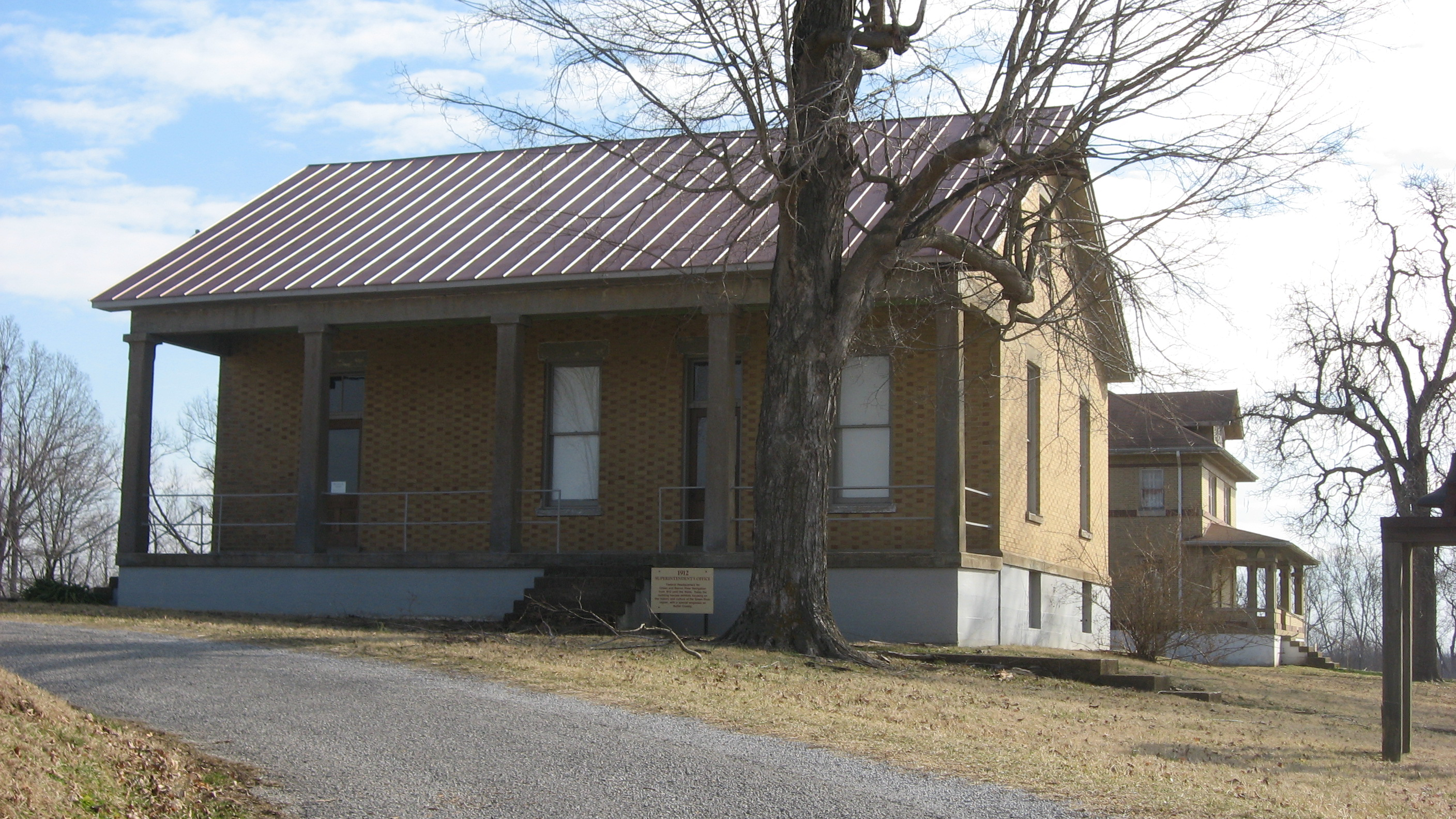 Workers' office and supervisor's residence for Woodbury Lock No. 4 on the Green River, located in a Butler County park off the Woodbury Loop in Woodbury, Kentucky, United States. Built in 1912 (office) and 1913 (house) for Army Corps of Engineers employees, they are listed together on the National Register of Historic Places.